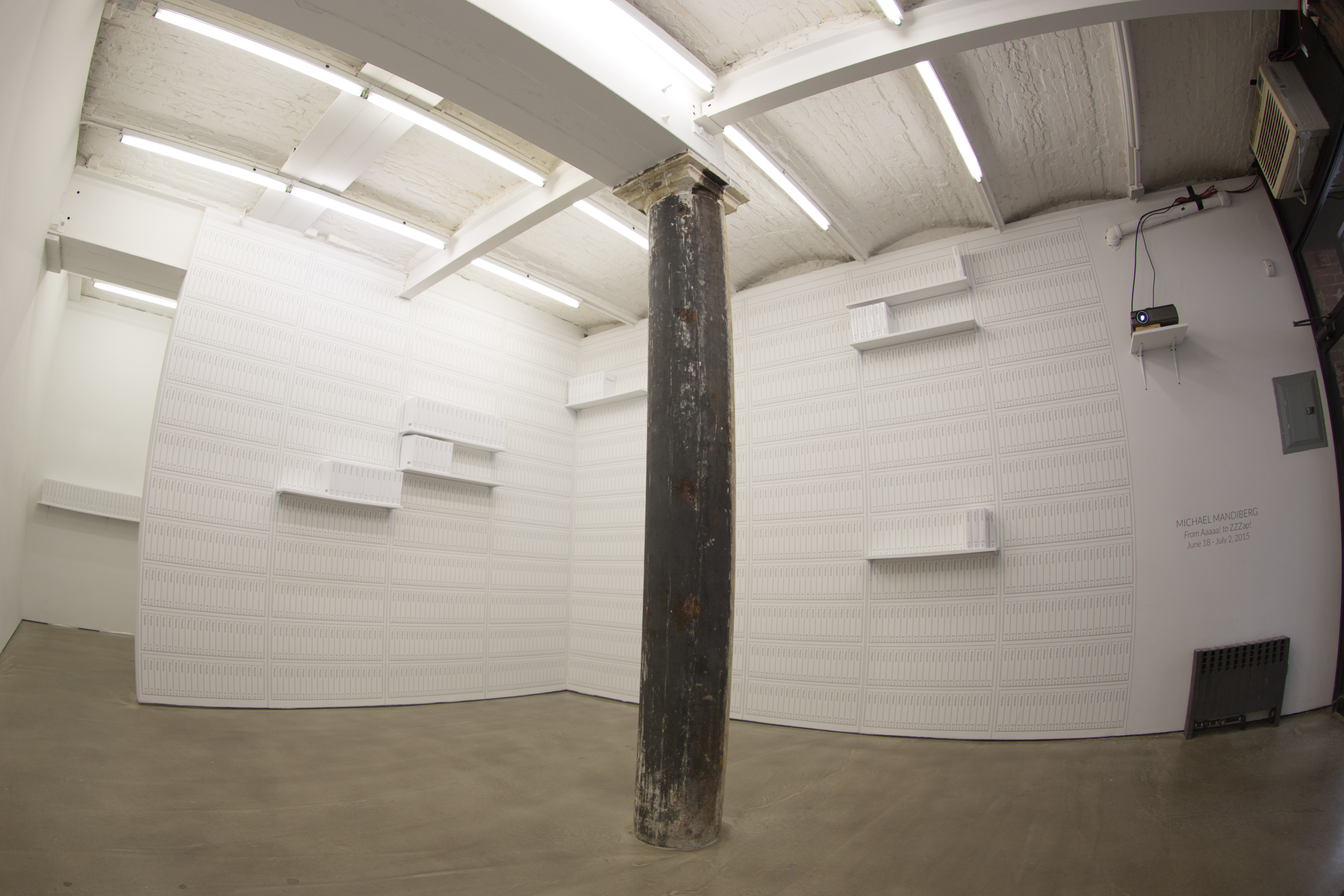 Print Wikipedia by Michael Mandiberg, NYC June 18, 2015 Derivative work CC By-SA 3.0 2015, Wikipedia contributors and Michael Mandiberg User:Theredproject